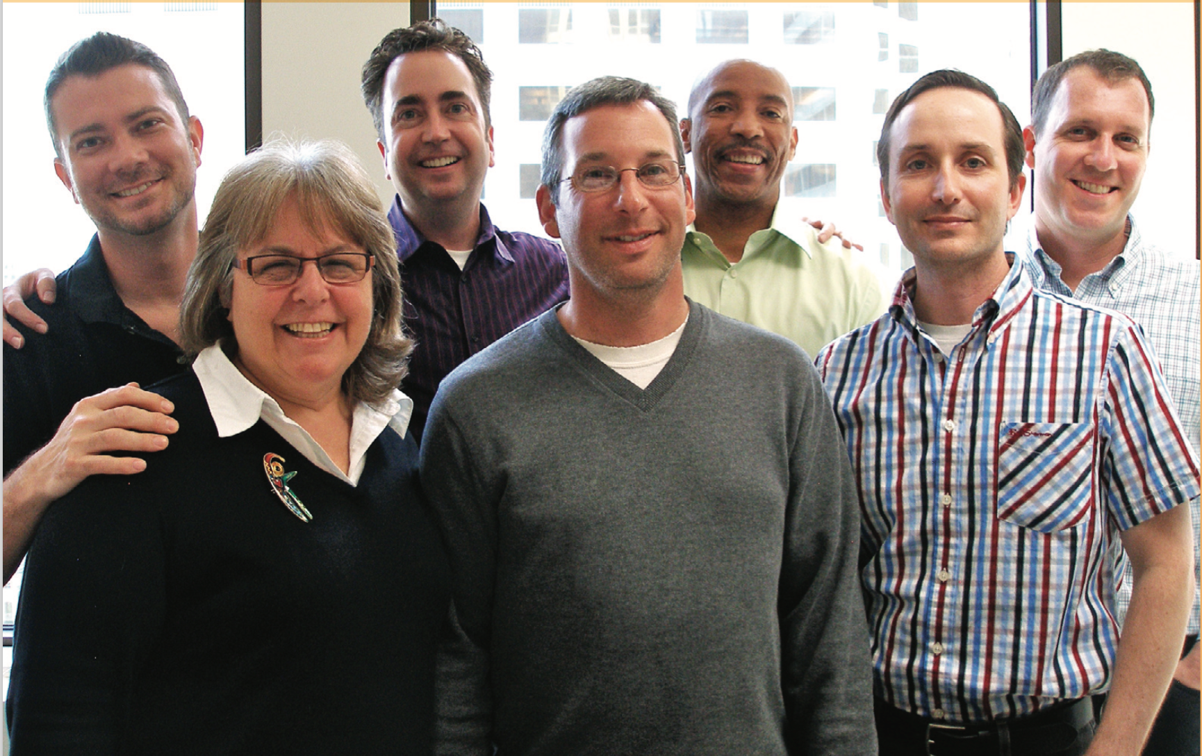 The Mpowerment Project Team at UCSF To be used on the Mpowerment Project wiki page